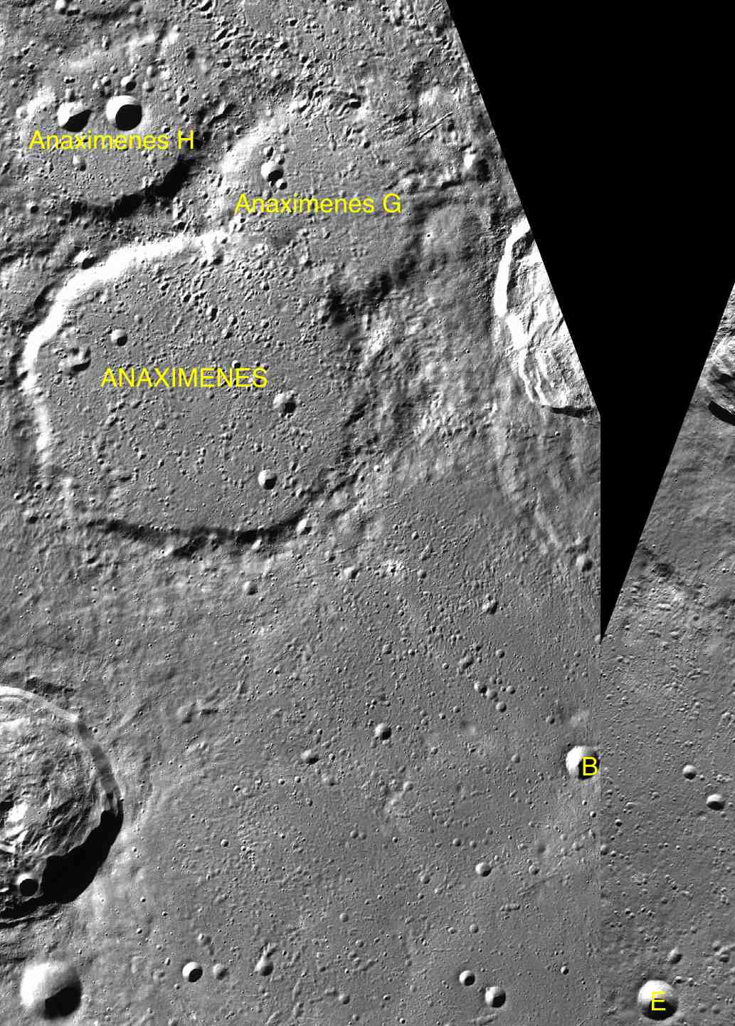 Parts of the charts LAC-2, LAC-3 used for the presentation